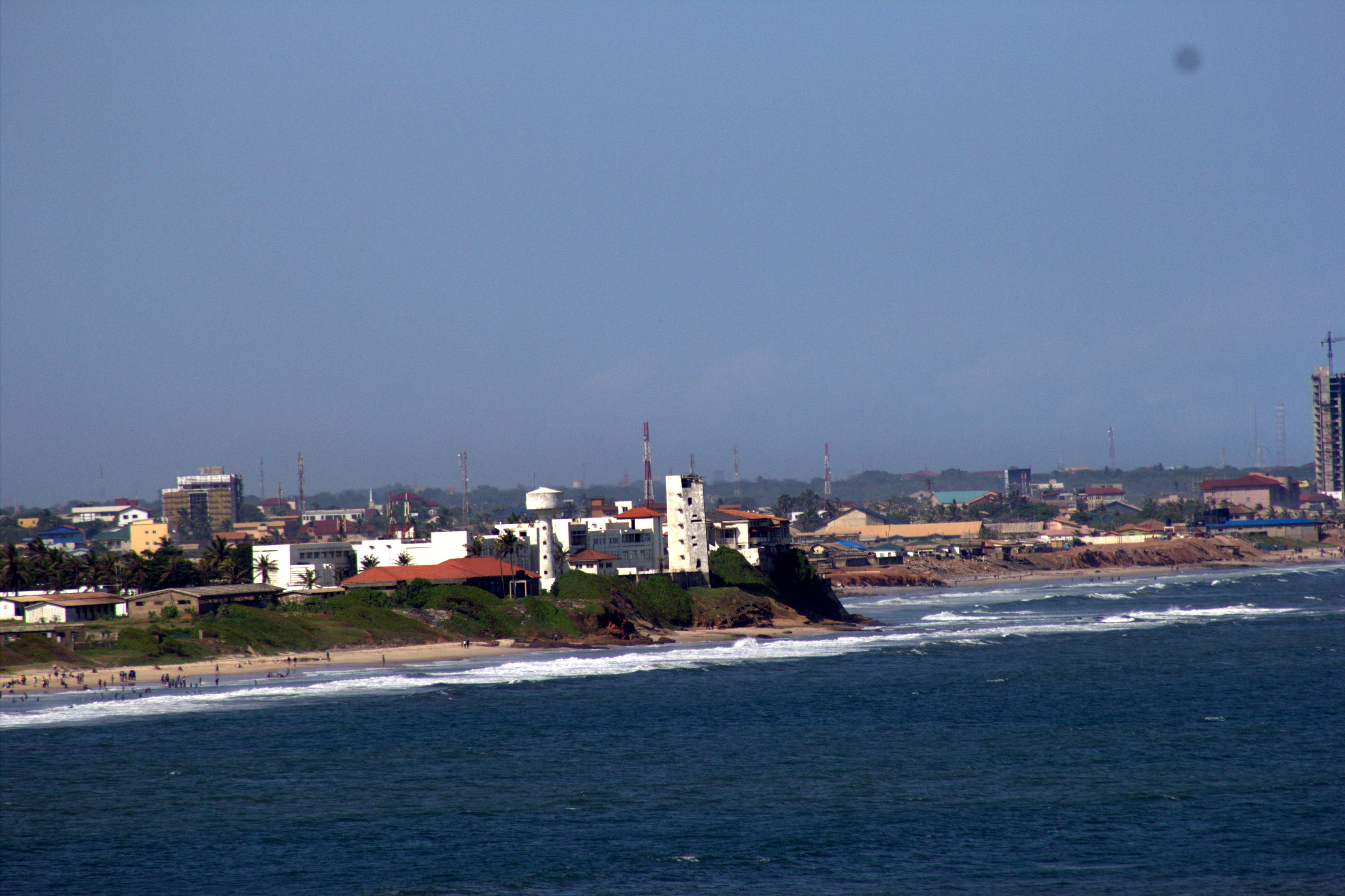 A view of the Osu Castle from the lighthouse in Jamestown, Accra